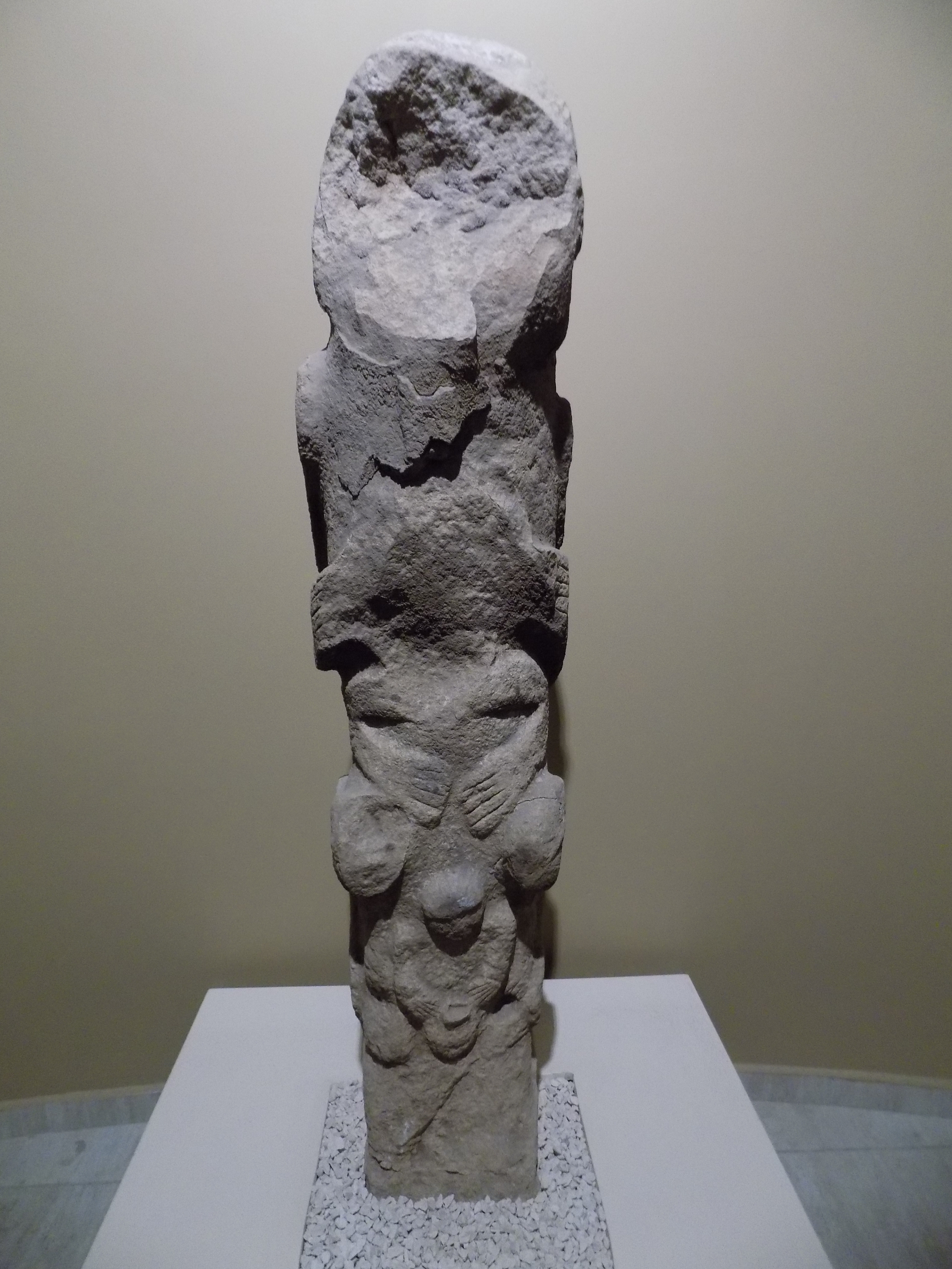 Neolithic totem pole from Göbekli Tepe in Turkey - Urfa (Şanlıurfa) Museum; from Layer II, 8800-8000 BC, PPN B